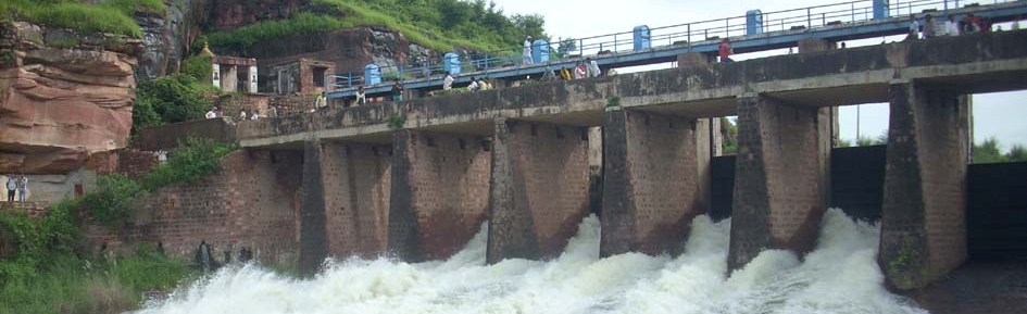 Lake of Bandh Baretha near by rudawal